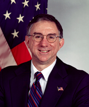 official picture